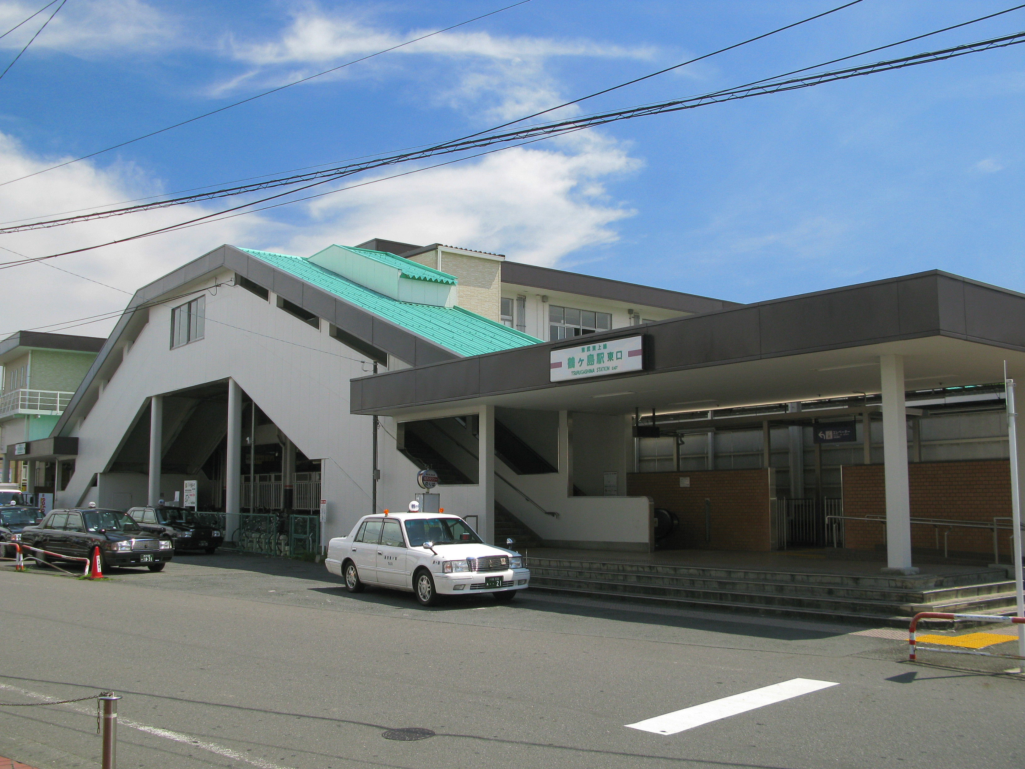 East entrance of Tsurugashima Station on the Tobu Tojo Line in Saitama Prefecture, Japan